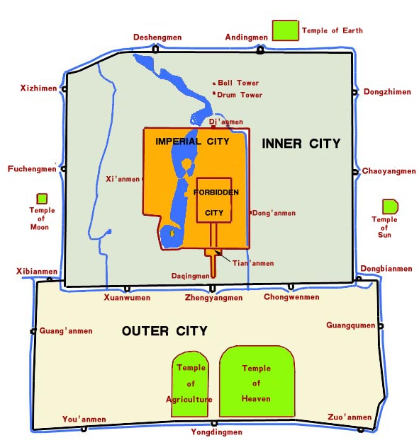 map of Beijing city wall